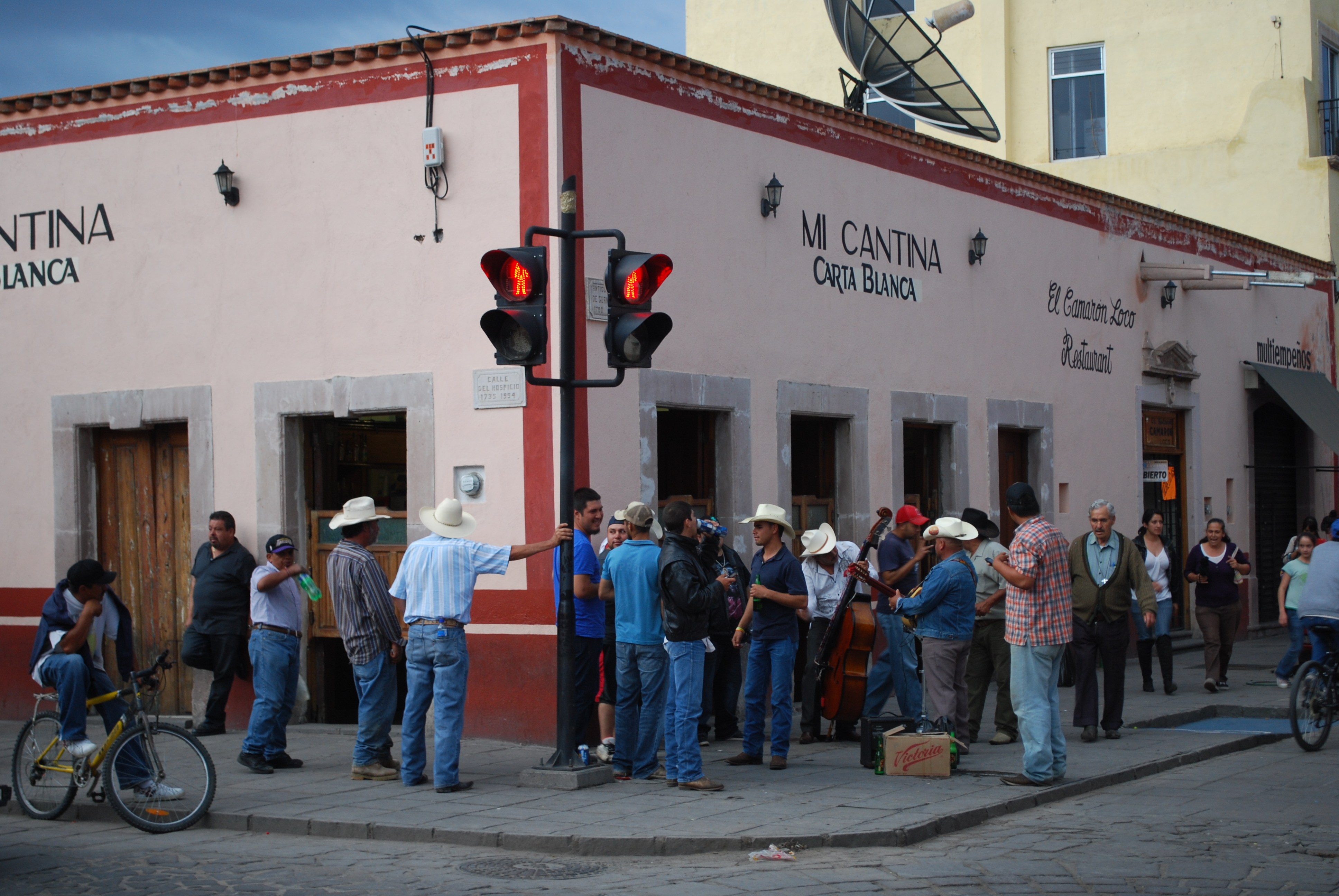 Mi Cantina bar in Jerez, Zacatecas